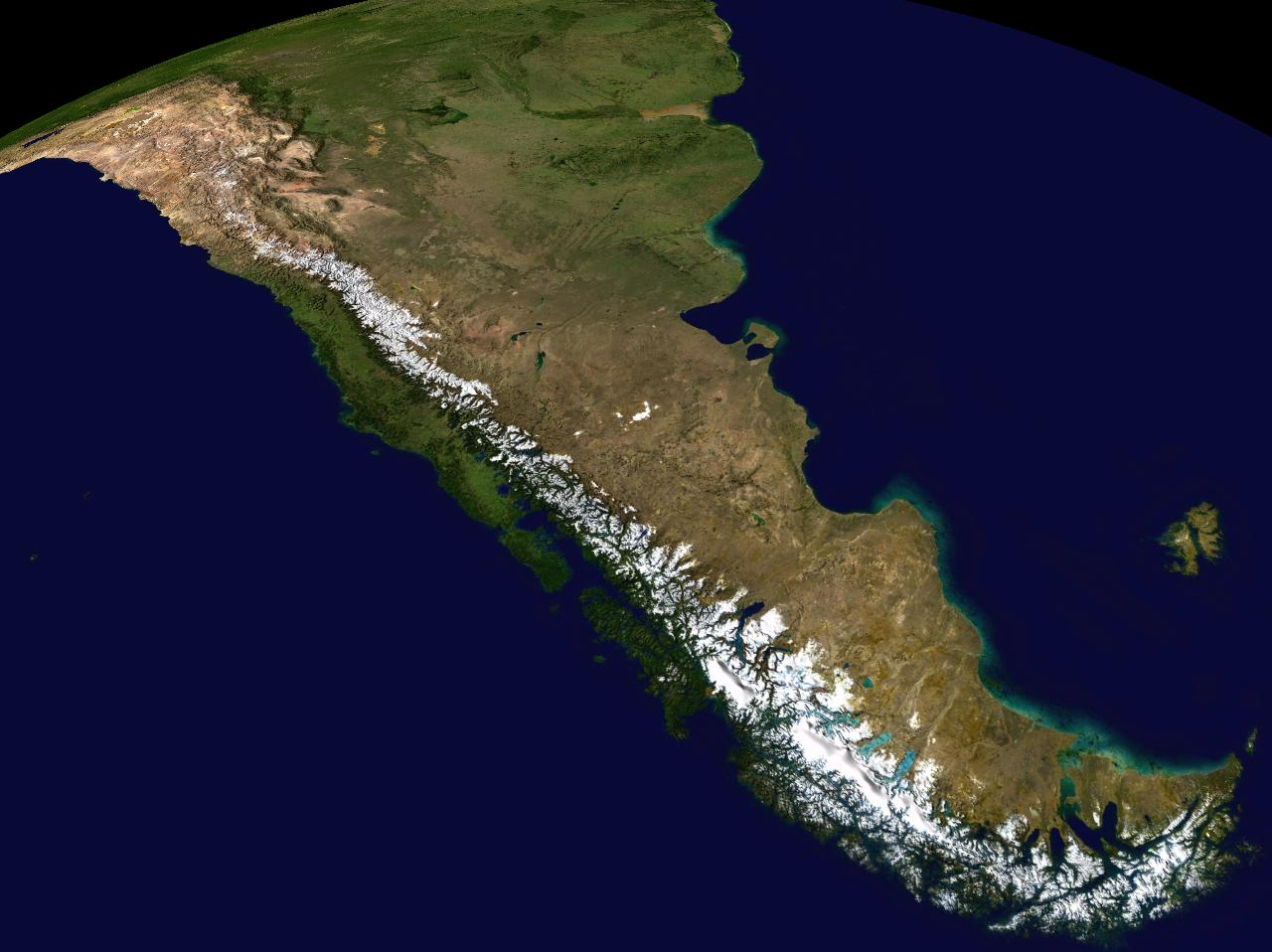 NASA World Wind screenshot of the Andes, 70.30345W, 42.99203S in South America.